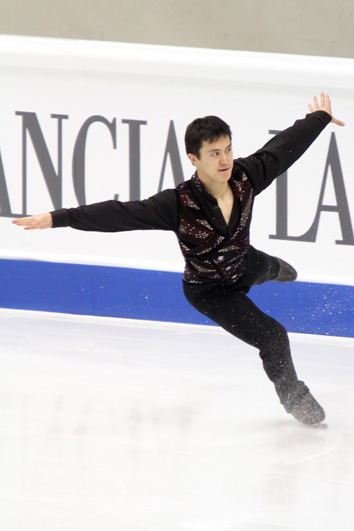 Patrick Chan at the 2010 World Championships.